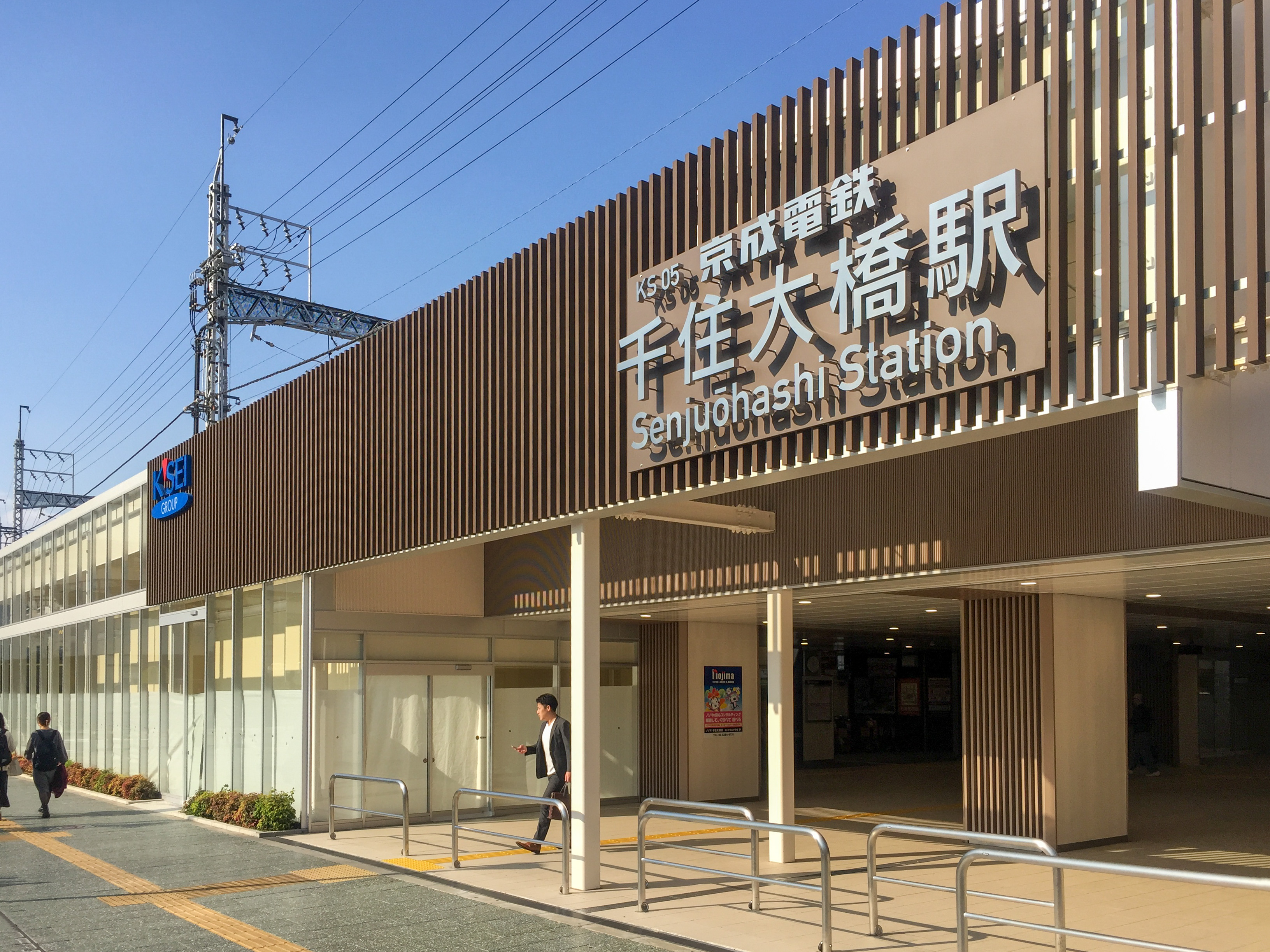 The south entrance to Senjuōhashi Station on the Keisei Main Line in Tokyo, Japan